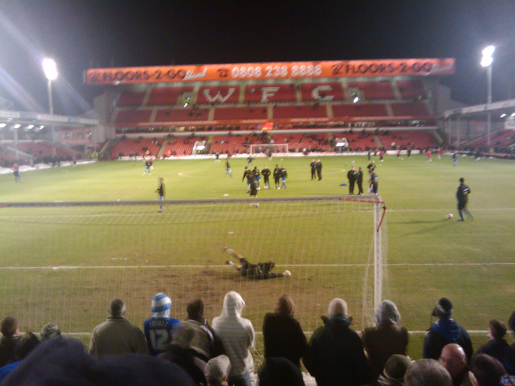 The Floors 2 Go Stand at the Bescot Stadium, before Walsall v Leicester City on 3rd February 2009.